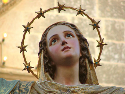 I've took the photo myself.